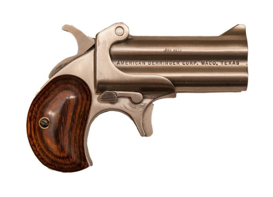 Picture of American Corporation Derringer M1 Caliber: .380 Cal